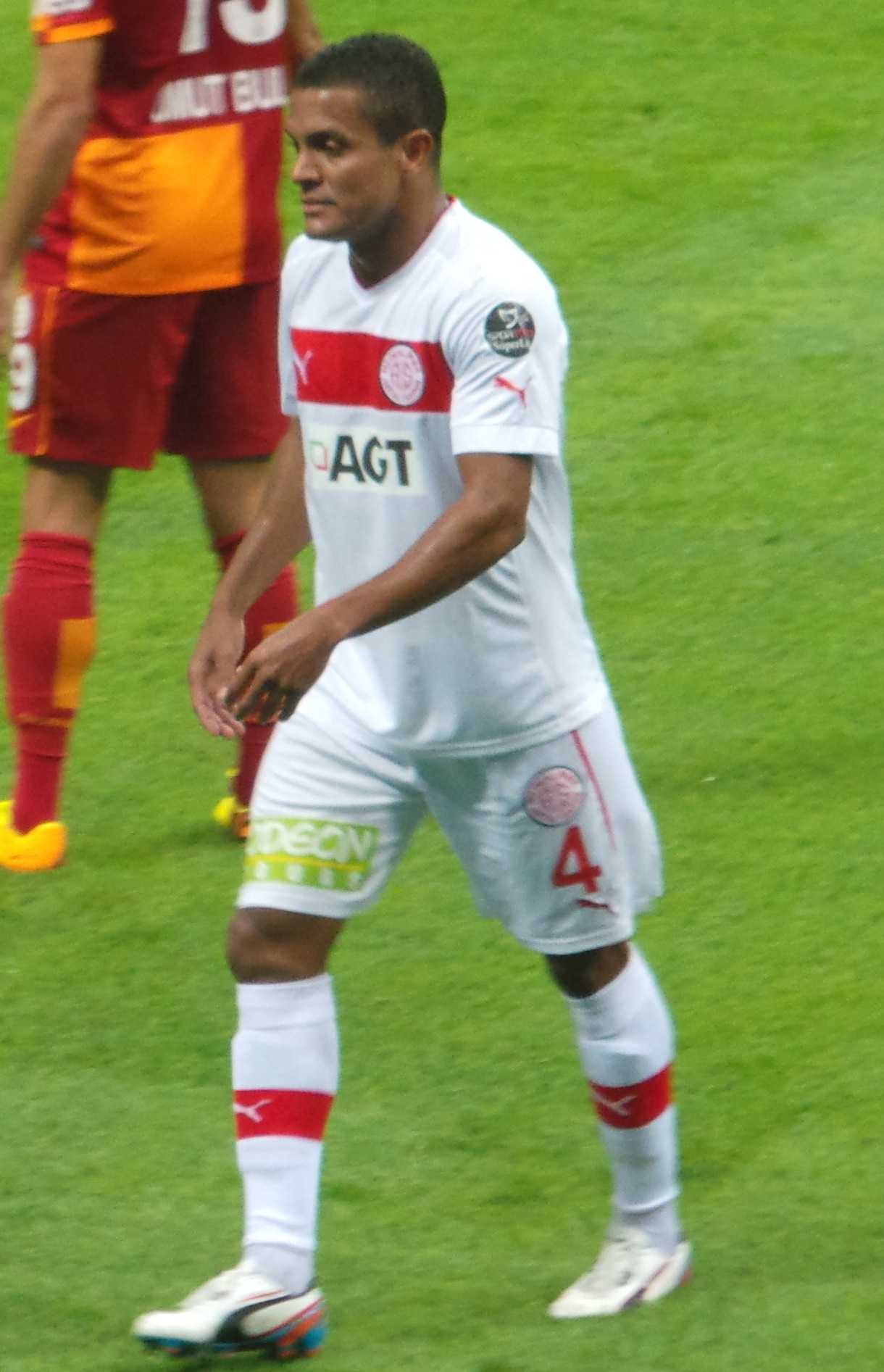 Wederson with Antalyaspor